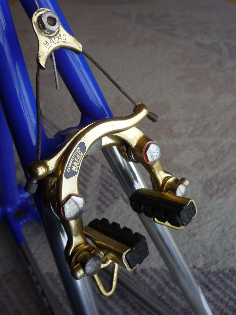 center pull caliper brake - MAFAC competition